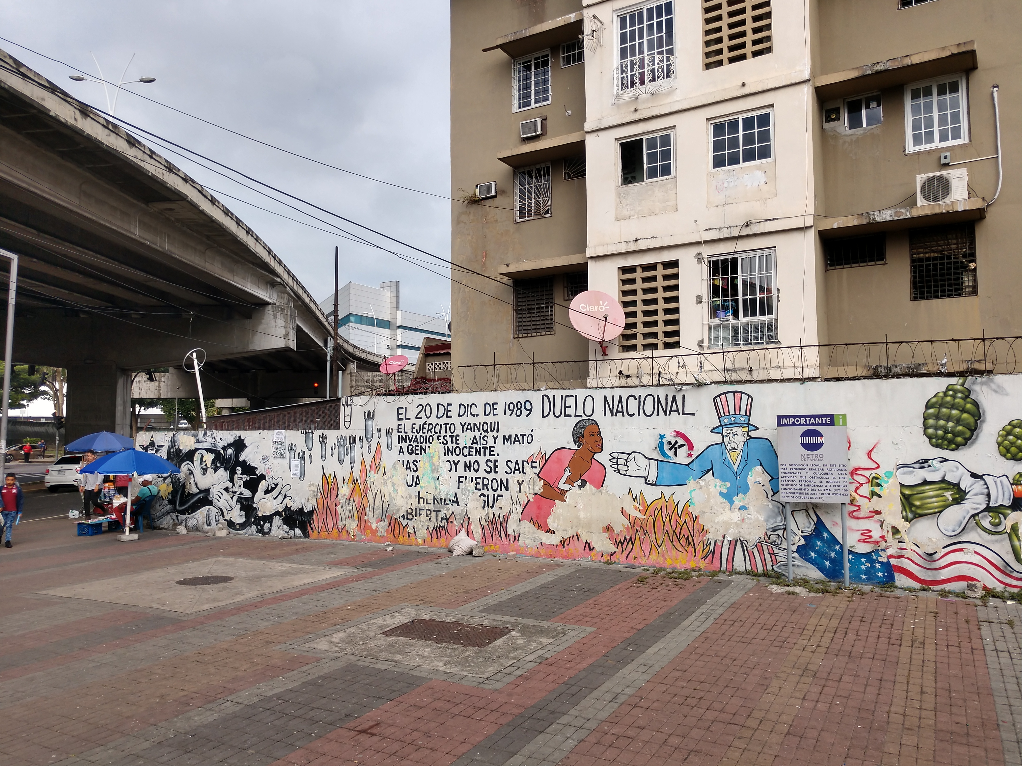 Protest mural against the US invasion of Panama in 1989. Exterior of the May 5 station of the Panama metro.